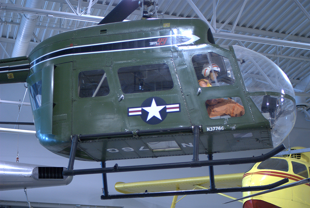 A number of examples of Hiller's work in developing helicopter technology. They have a show every year by the air field there.